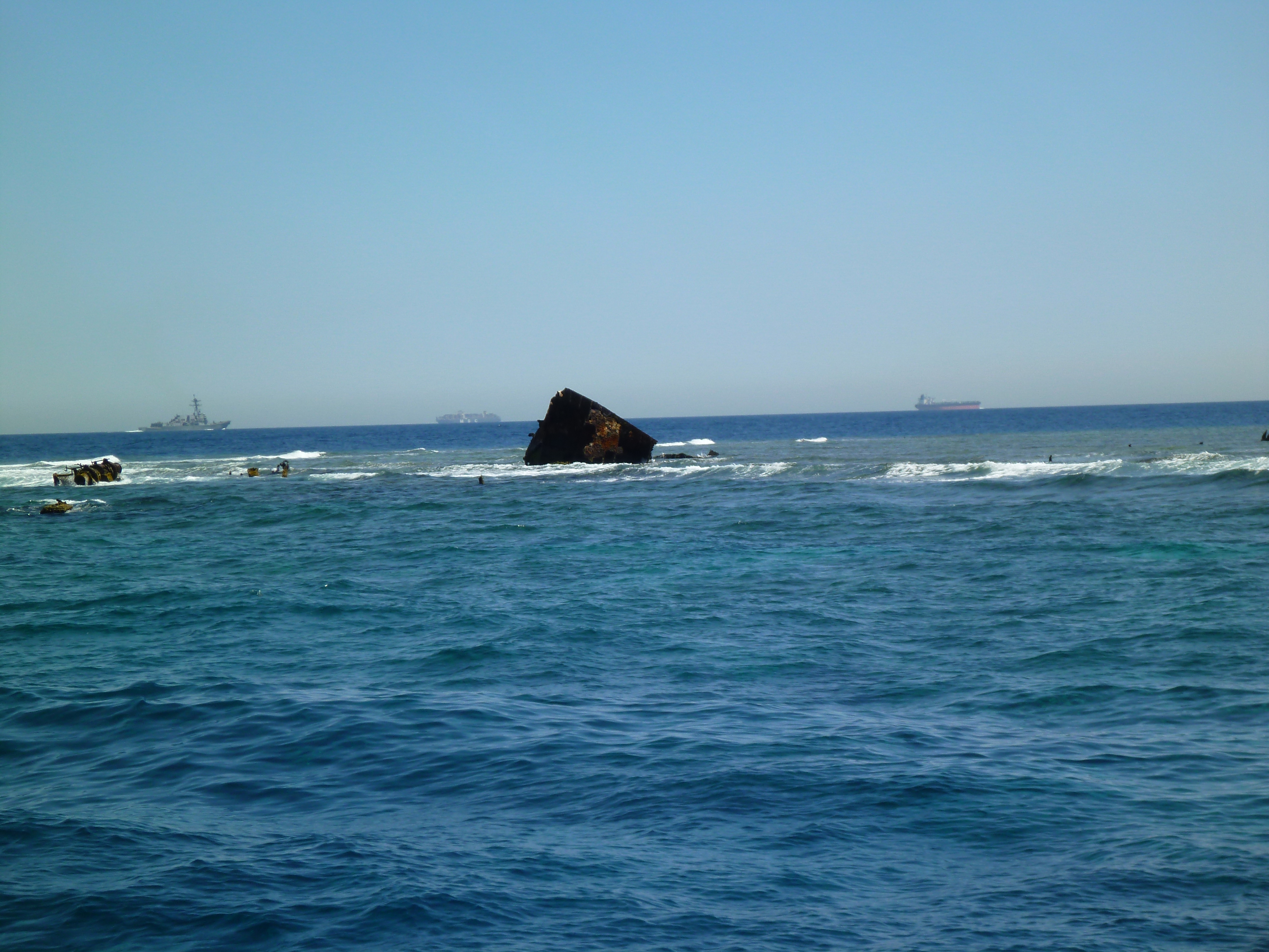 Sha'b Abu Nuhas riff with parts of the wreck of the Kimon M on top. In the background ships in the shipping channel